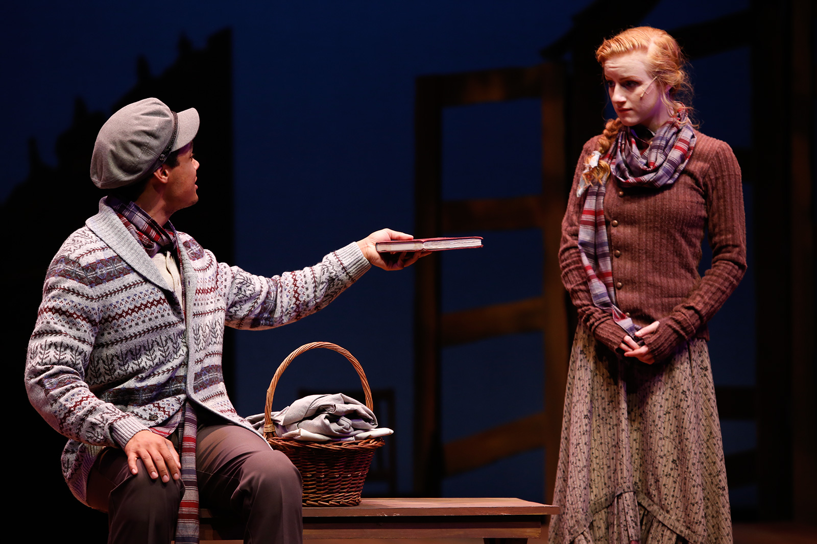 Fiddler On the Roof